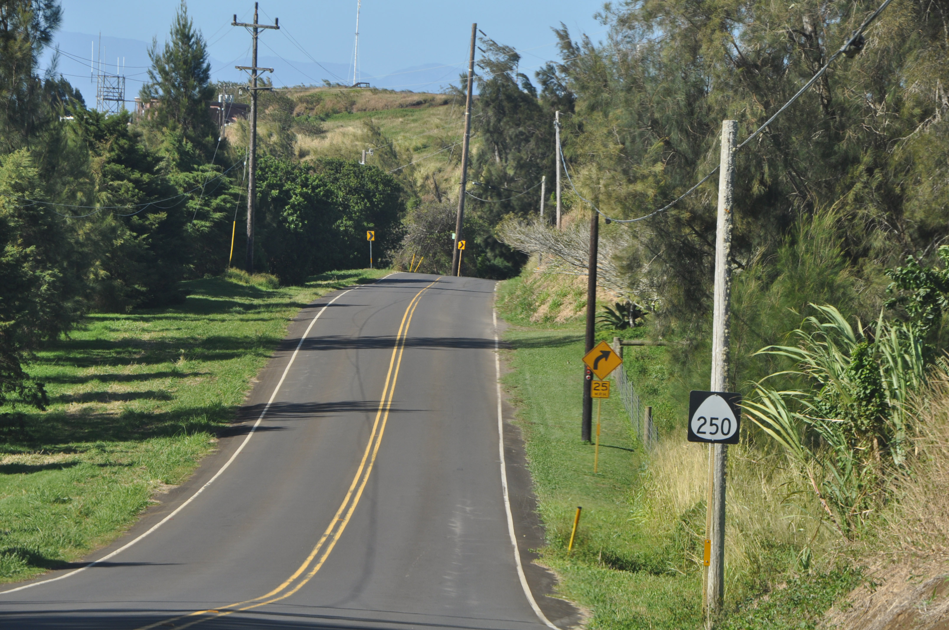 Hawaii State Route 250